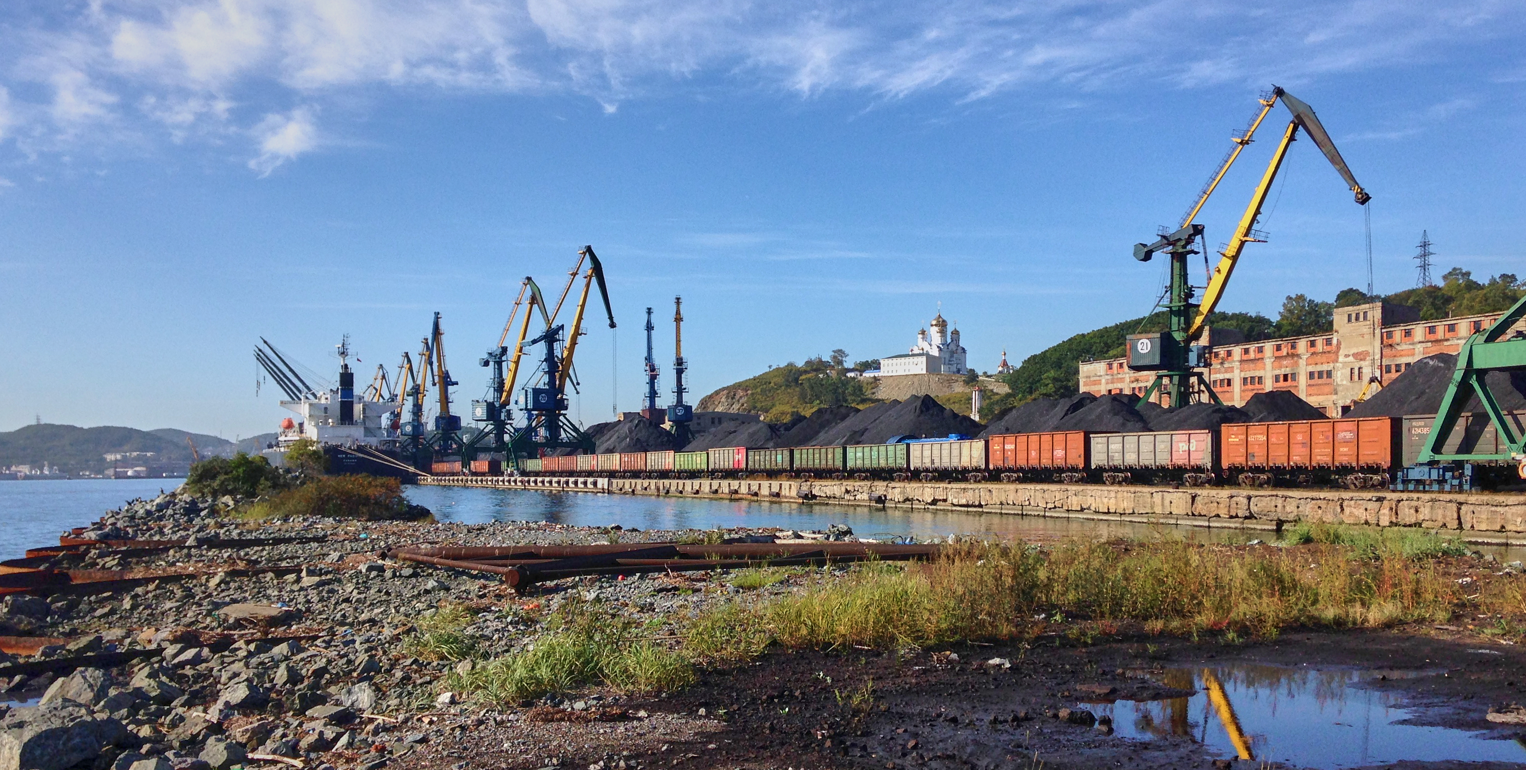 Coal reloading